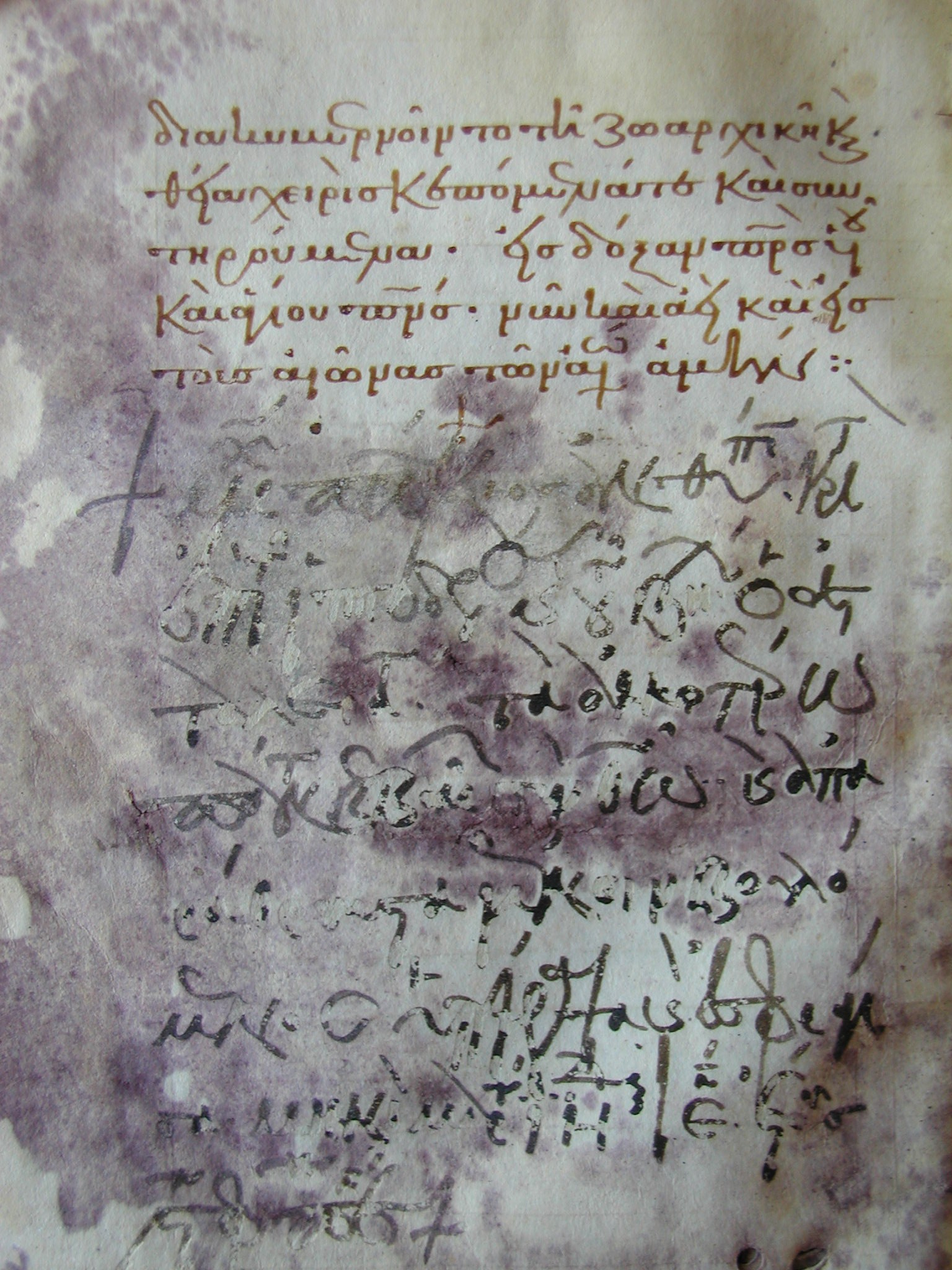 Autograph Signature of Michael Attaleiates from the Manuscript of the Diataxis.